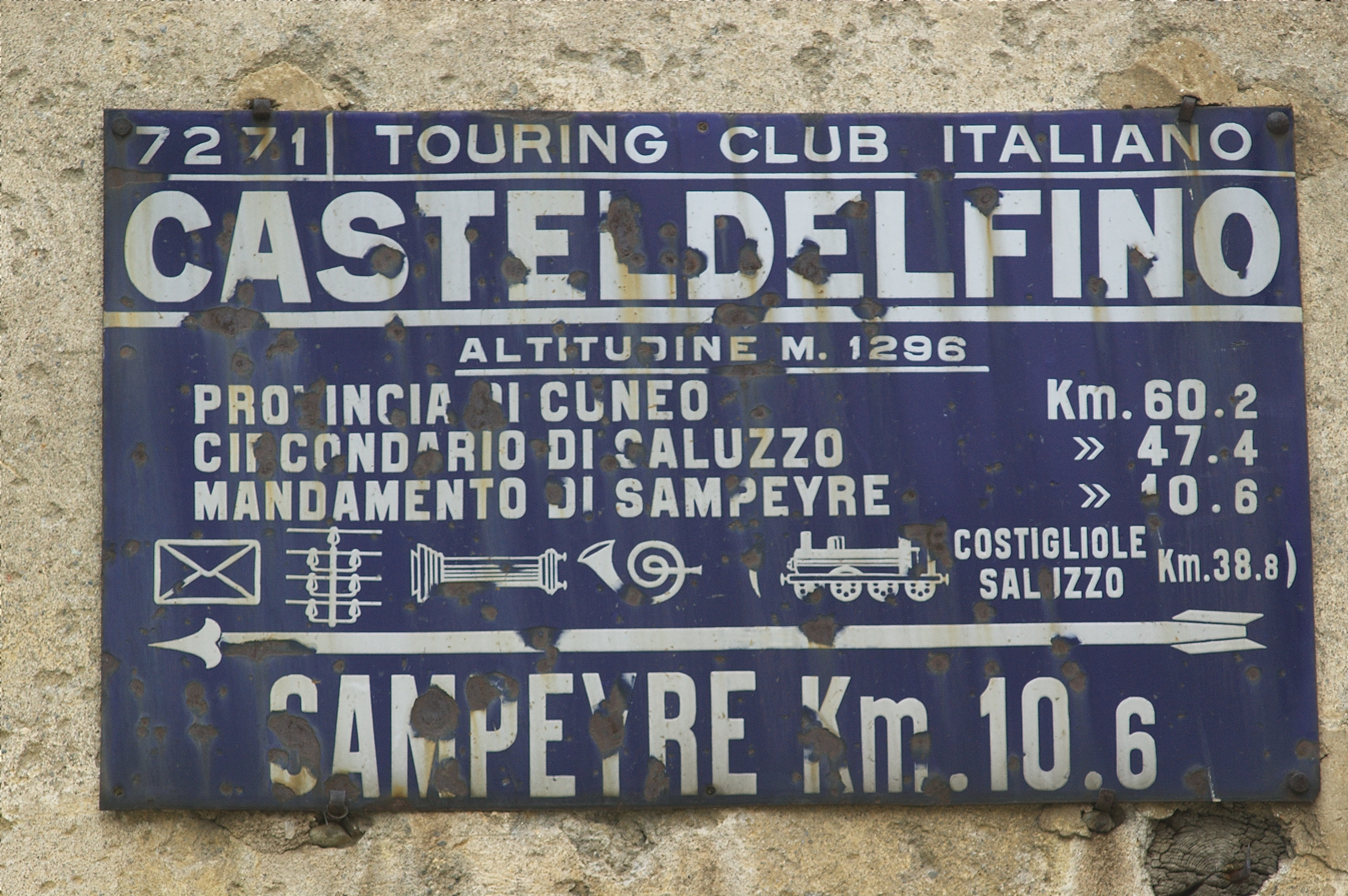 A Touring Club Italiano sign on the bell tower of Casteldelfino. This sign is prior to 1923, date of suppression of the mandamento Italian administrative subdivision.